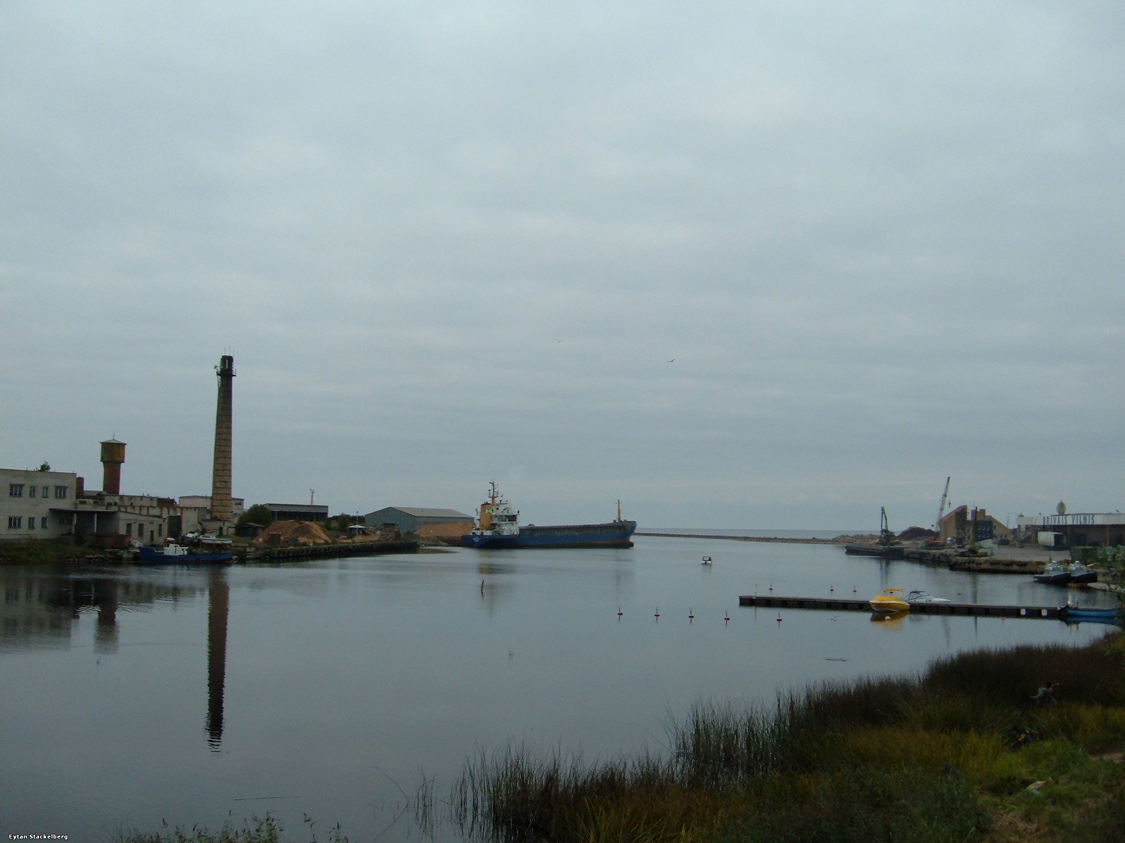 Salaca river's estuary